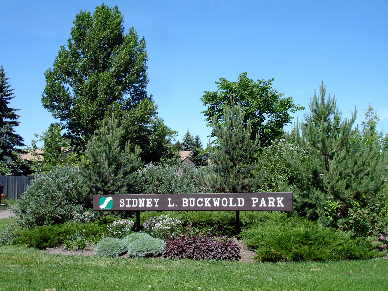 Sidney L. Buckwold Park in the College Park East subdivision of Saskatoon, Saskatchewan, Canda.